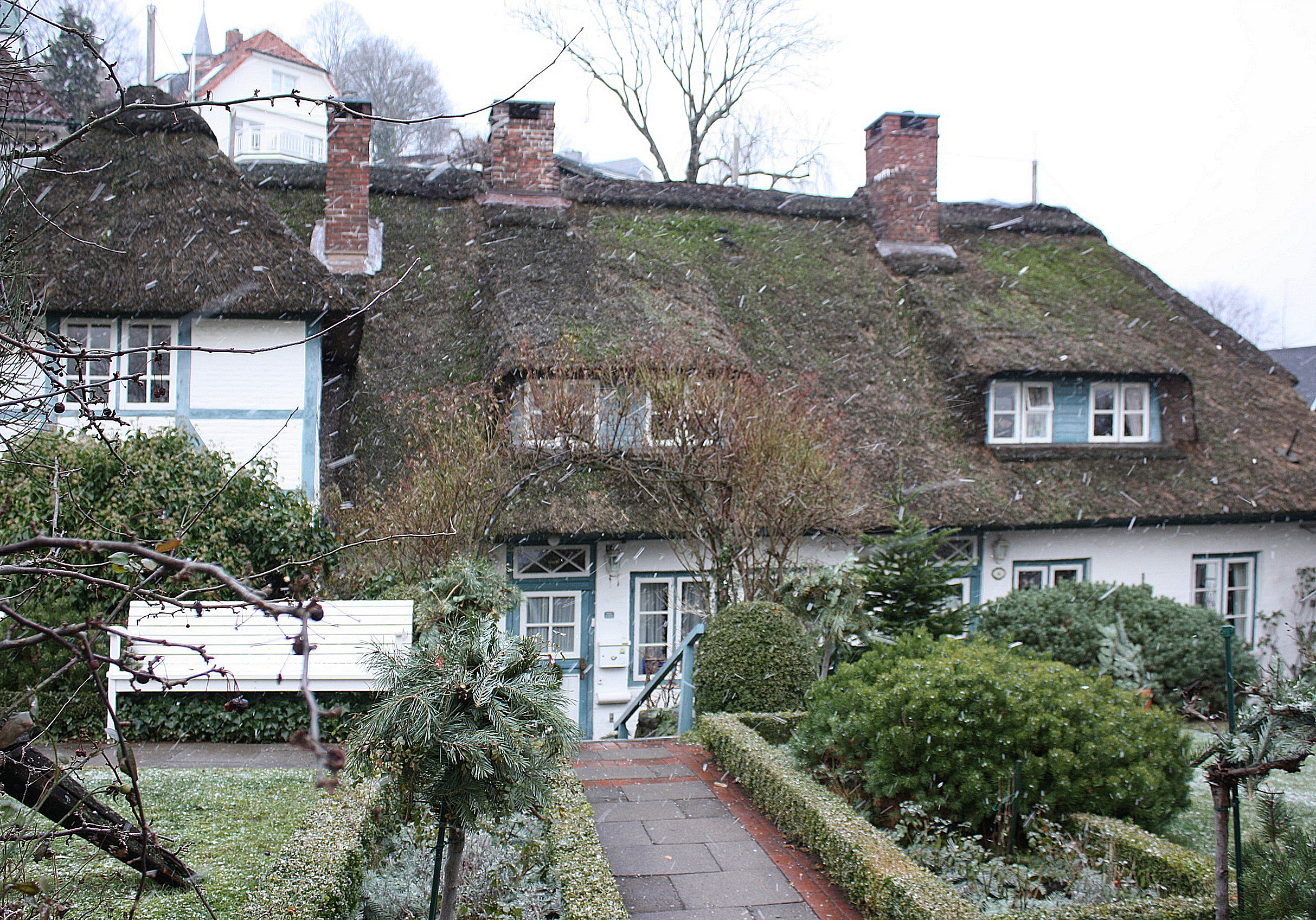 Hamburg-Blankenese, thatched-roof house at the foot of the Süllberg